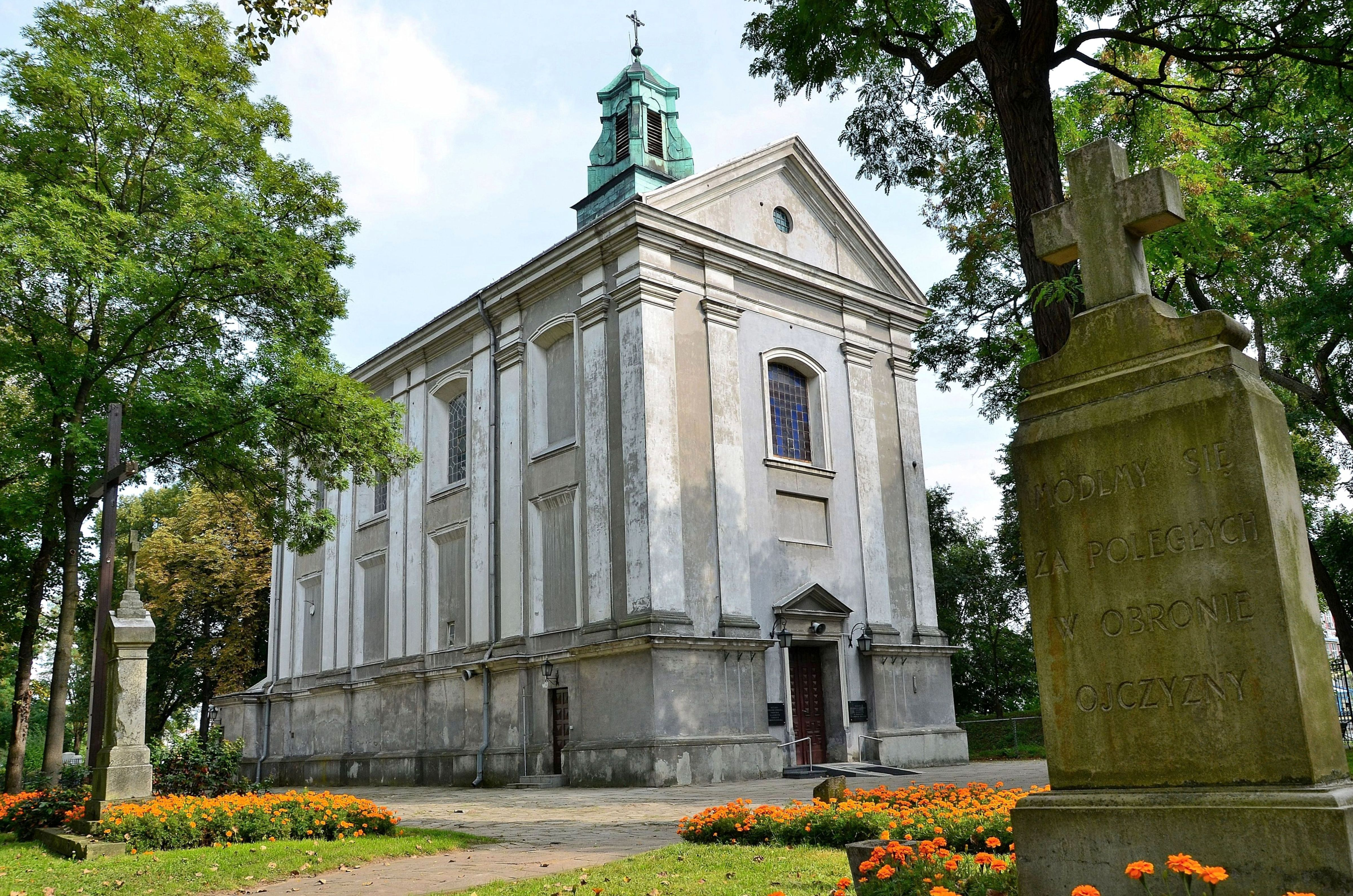 Church of Saint Lawrence in the Wola district in Warsaw English | Polski | +/−